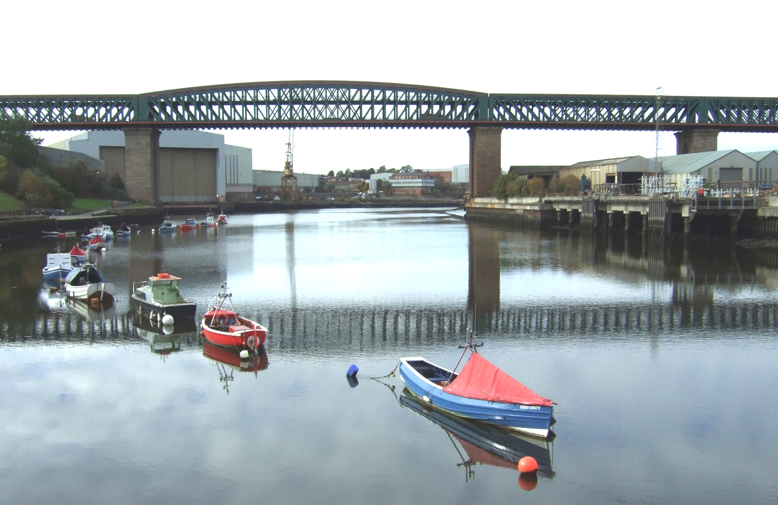 Queen Alexandra Bridge across the River Wear at Sunderland, England.